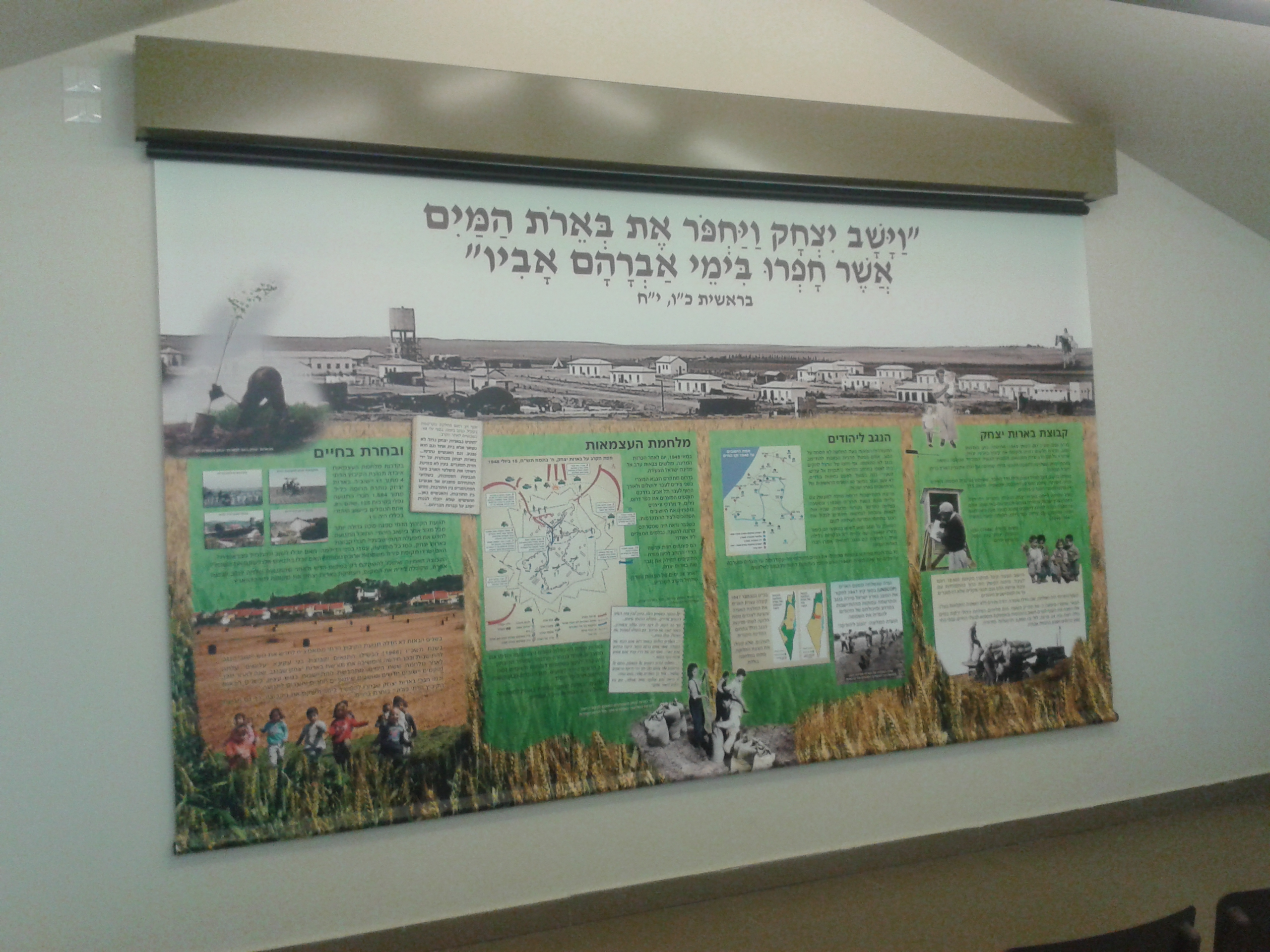 Be'erot baNegev Museum